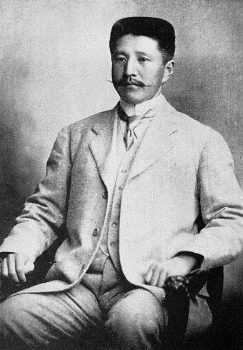 Takamasa Kushige